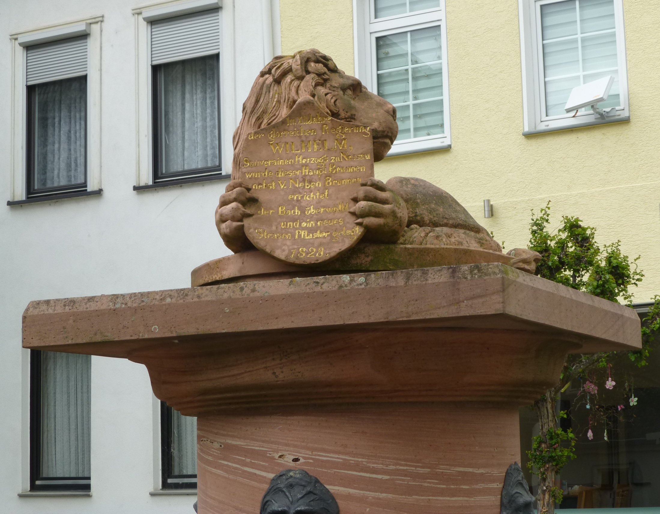 Fountain with lion and text from 1828, Kaub, Rhineland-Palatinate.